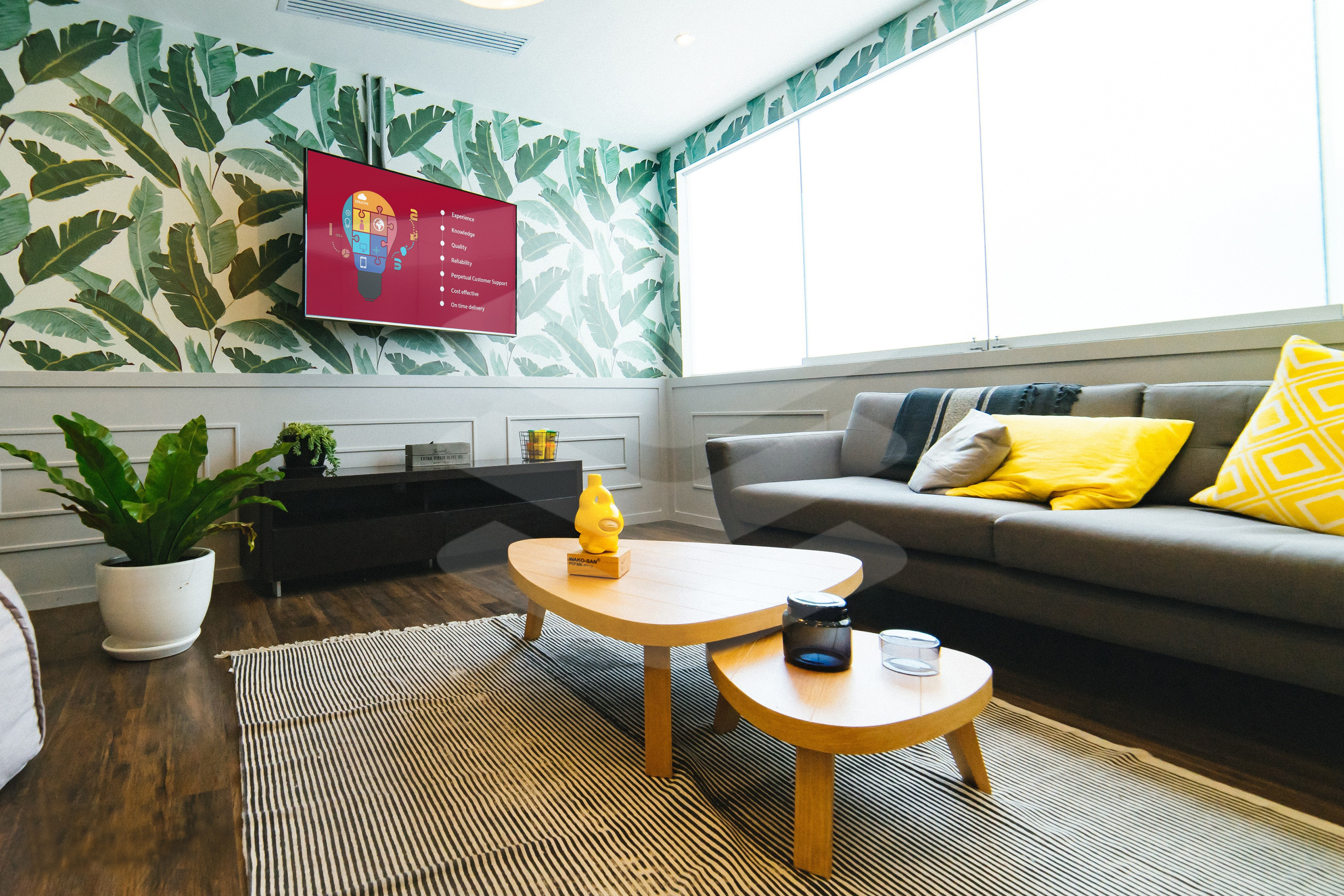 TVSR Technologies Office